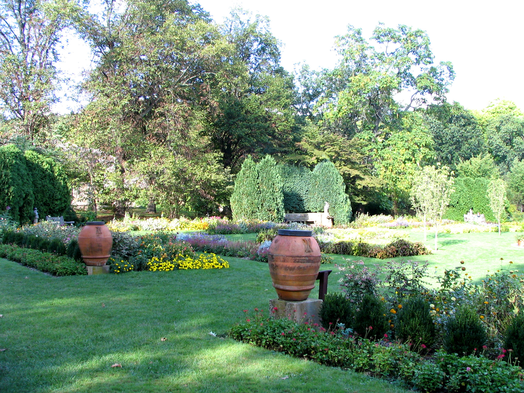 A section of the New Jersey State Botanical Gardens at Skylands Manor, Ringwood State Park, New Jersey, USA. 18 September, 2005.